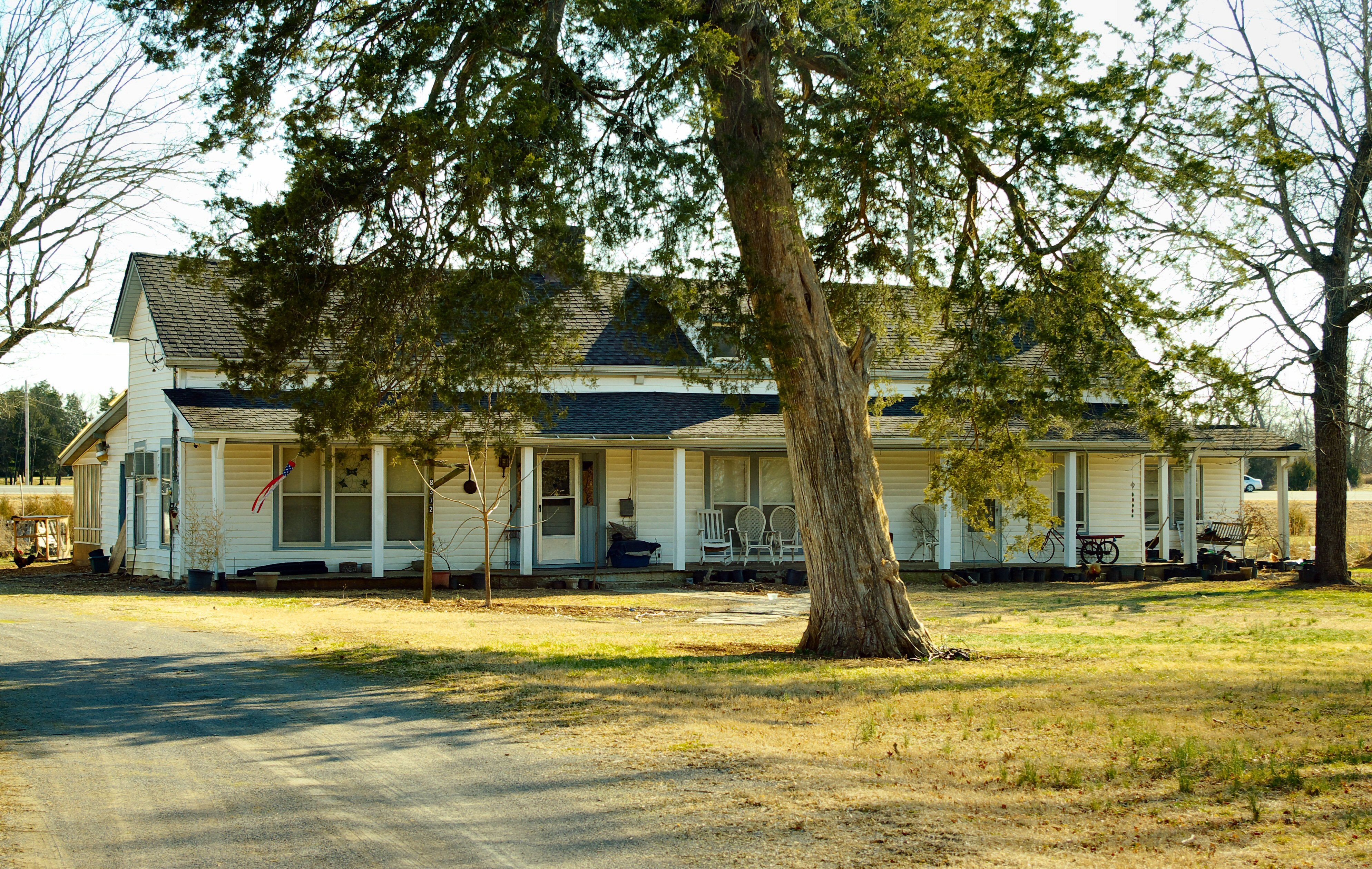 The home of banjoist and showman Uncle Dave Macon (1870–1952) in Kittrell, Tennessee, United States